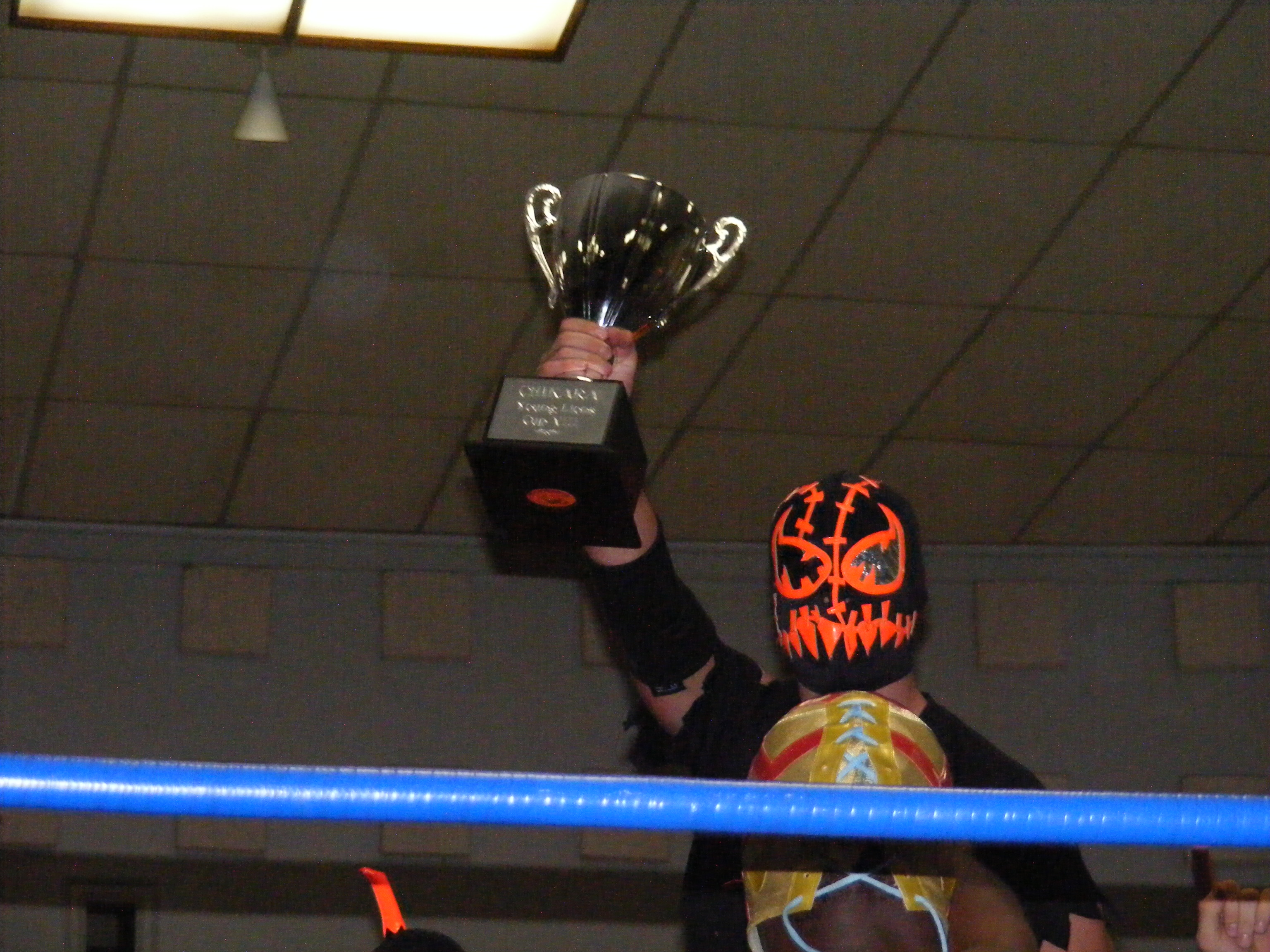 Professional wrestler Frightmare with the Chikara Young Lions Cup